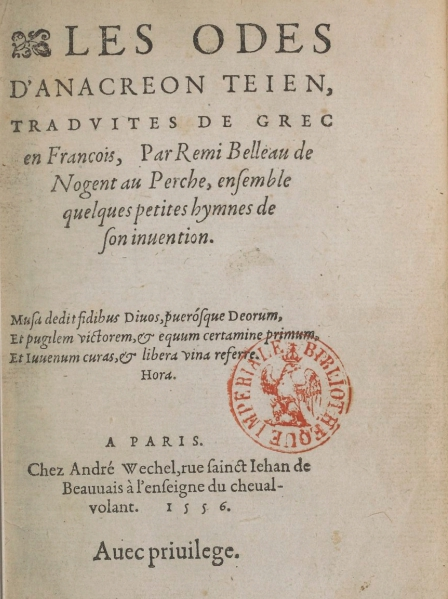 Title page of: Les odes d'Anacréon : traduites de grec en françois, par Rémy Belleau, ensemble de quelques petites hymnes de son invention (trad. Rémy Belleau), Paris, A. Wechel, 1556, 1 vol. ; in-8 (notice BnF no FRBNF30017685)